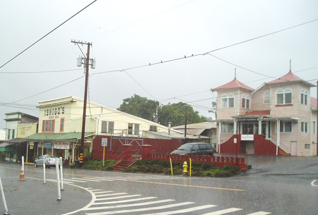 Honomu, Hawaii during rainstorm. December 2008